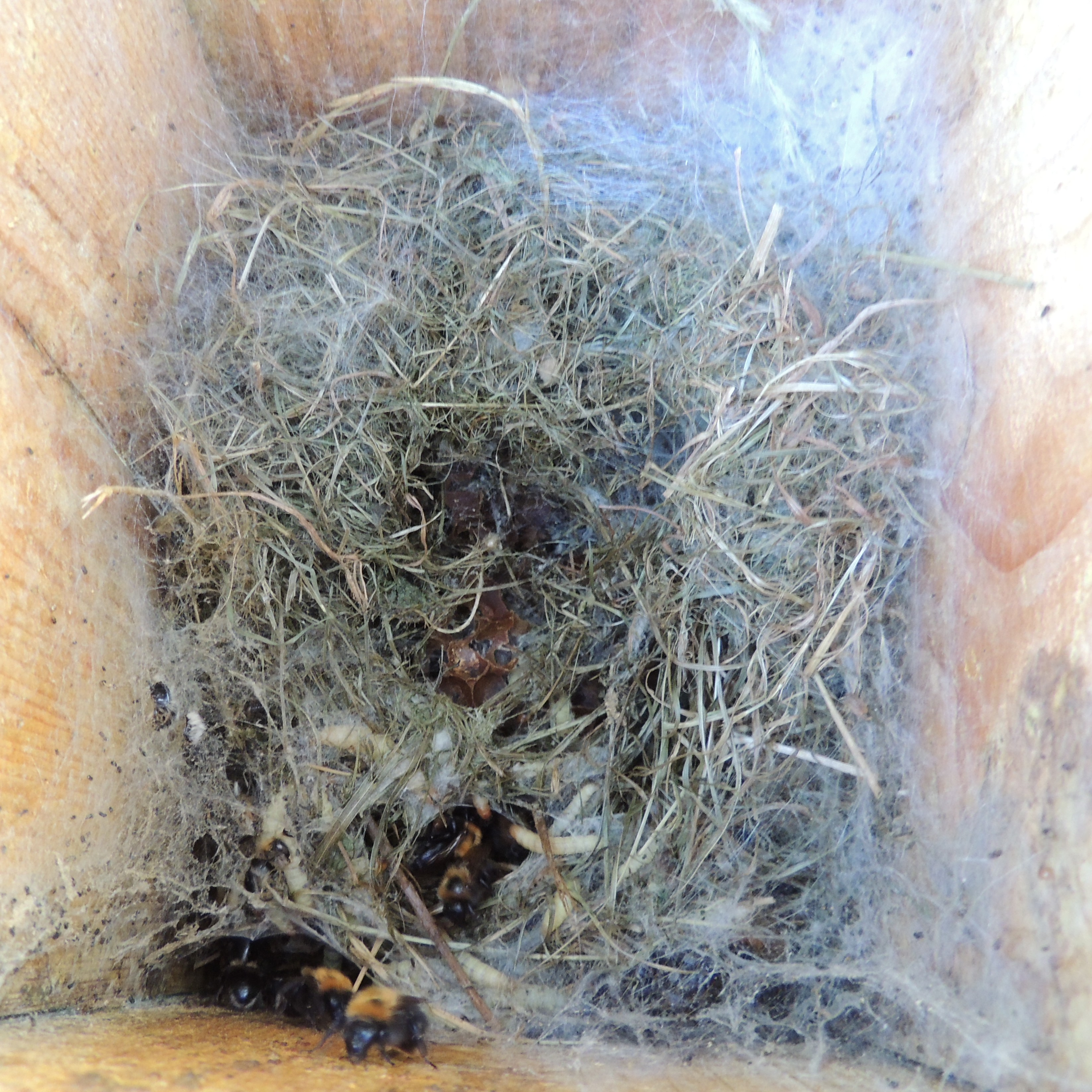 Bumblebee (Bombus hypnorum) nest in birdbox infested with wax moth larvae and pupae (Aphomia sociella), Sandy, Bedfordshire.